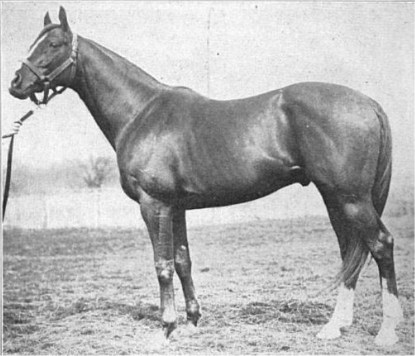 British-bred Thoroughbred stallion, Star Shoot (1898-1919), that was a five-time leading sire in the US during the 1910s.